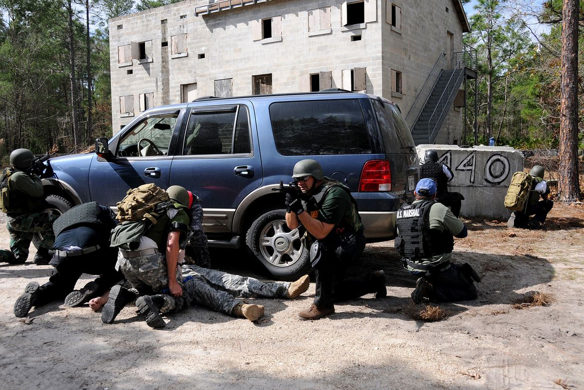 The Florida National Guard Counterdrug Program provided free training facilities to members of the U.S. Marshals Service at the Multijurisdictional Counterdrug Task Force Training Tactical (MCTFT-T) campus located at Camp Blanding Joint Training Center in Starke, Fla., Feb. 25. Florida SWAT Association instructors provided training intended to prepare team members with the ability to give emergency combat first aid while in a tactical situation.